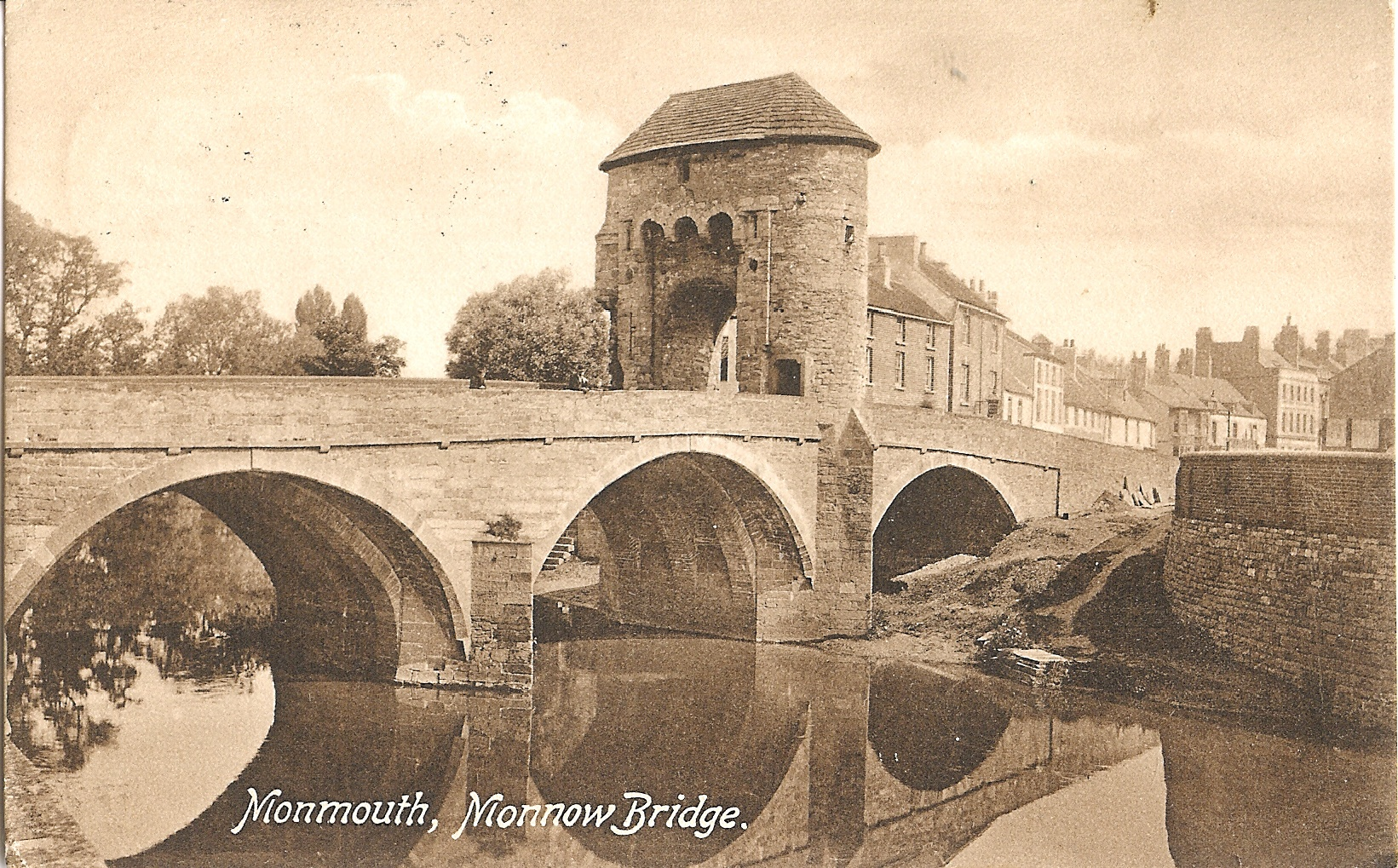 Monnow Bridge & Gatehouse - 1915